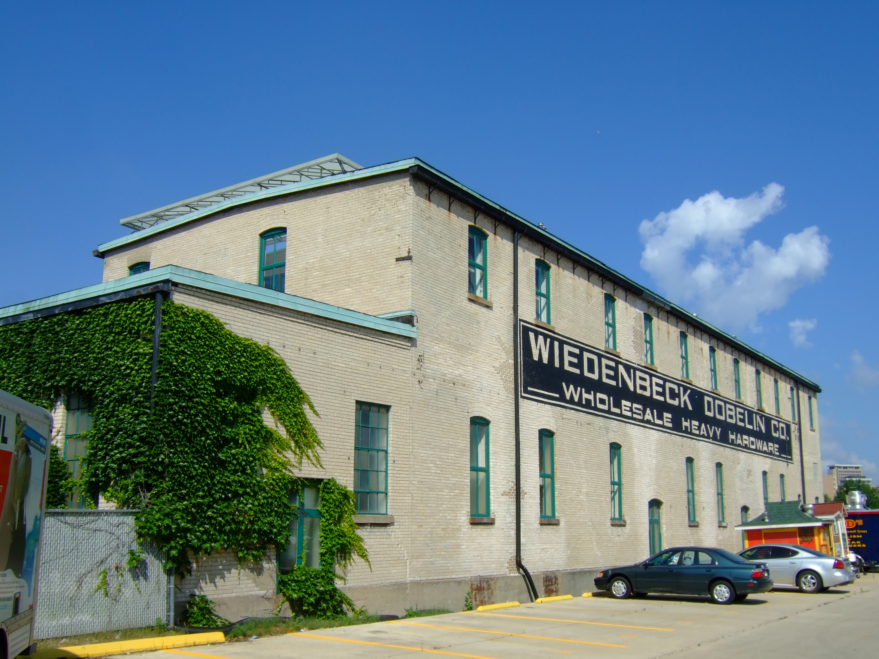 The Wiedenbeck Dobelin Warehouse at 619 W. Mifflin Street in Madison, Wisconsin, was designed by Claude and Starck and built in 1907. It is now converted into apartments and was added to the National Register of Historic Places in 1986.